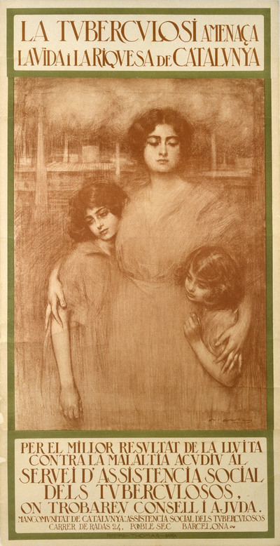 Ramon Casas i Carbó (1866–1932), anti-tuberculosis poster (1929) "La tuberculosi amenaça la vida i riquesa de Catalunya" from [1] This should be the relevant licence for an artist from Spain, where life + 70 is the law under the Berne Convention.